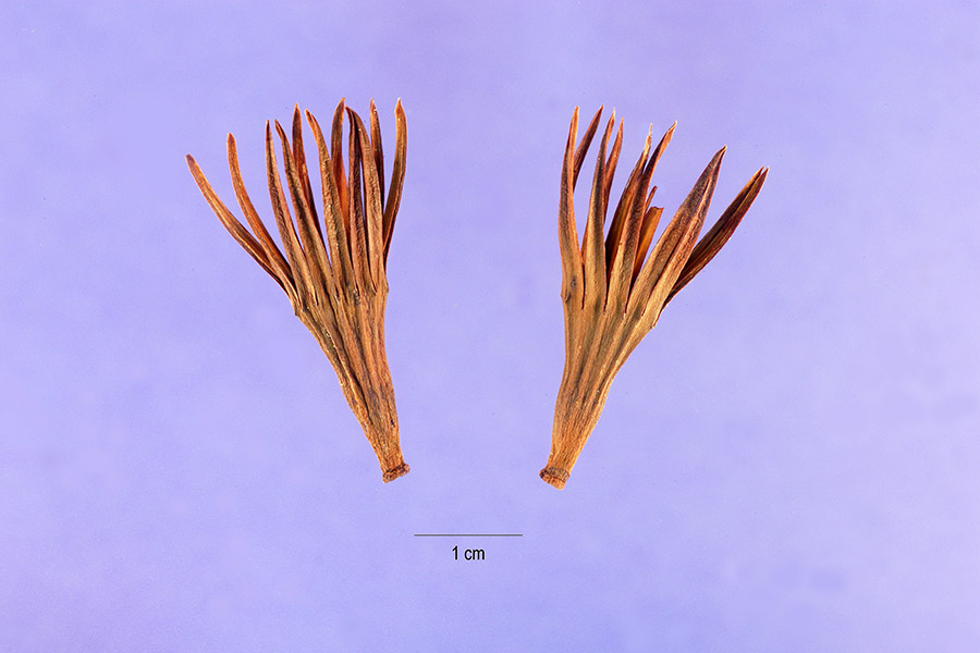 Seeds of Bruguiera sexangula